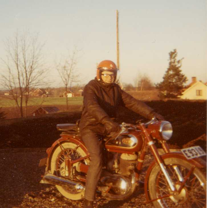 Kjell Alsetun och min TWN årsmodell 1953